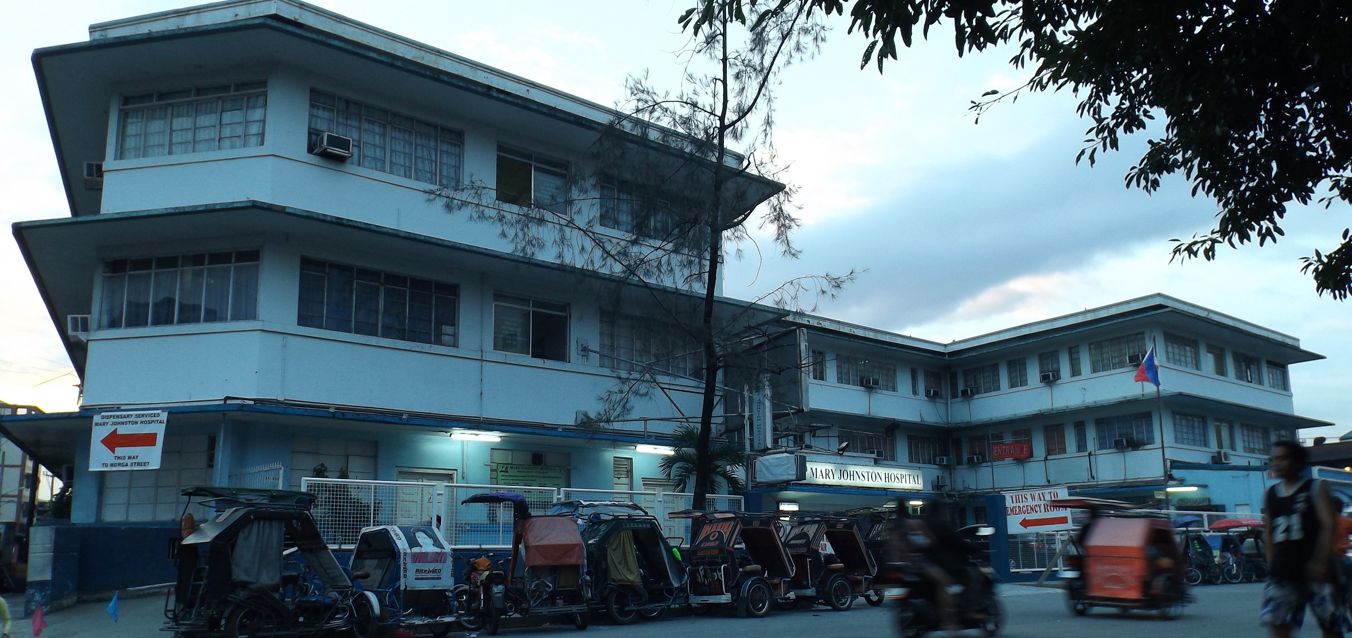 Main Facade